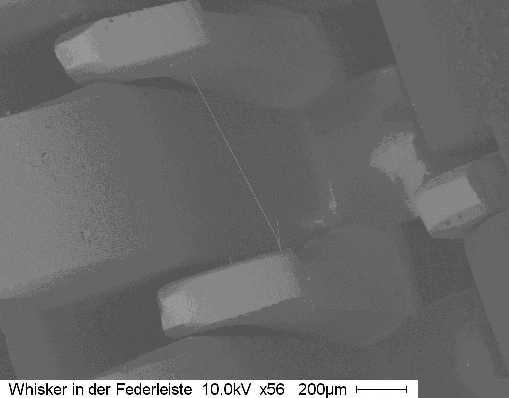 Whisker between lead free tinned pins